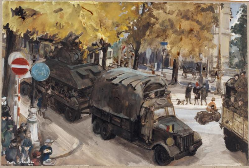 A Convoy Moving Up to the Front, Avenue Louise, Brussels - October 1944 image: a convoy of army vehicles including a truck flying a Belgian flag, a motorbike and a Sherman tank, drive along a tree-lined street while a few onlookers stop to watch.